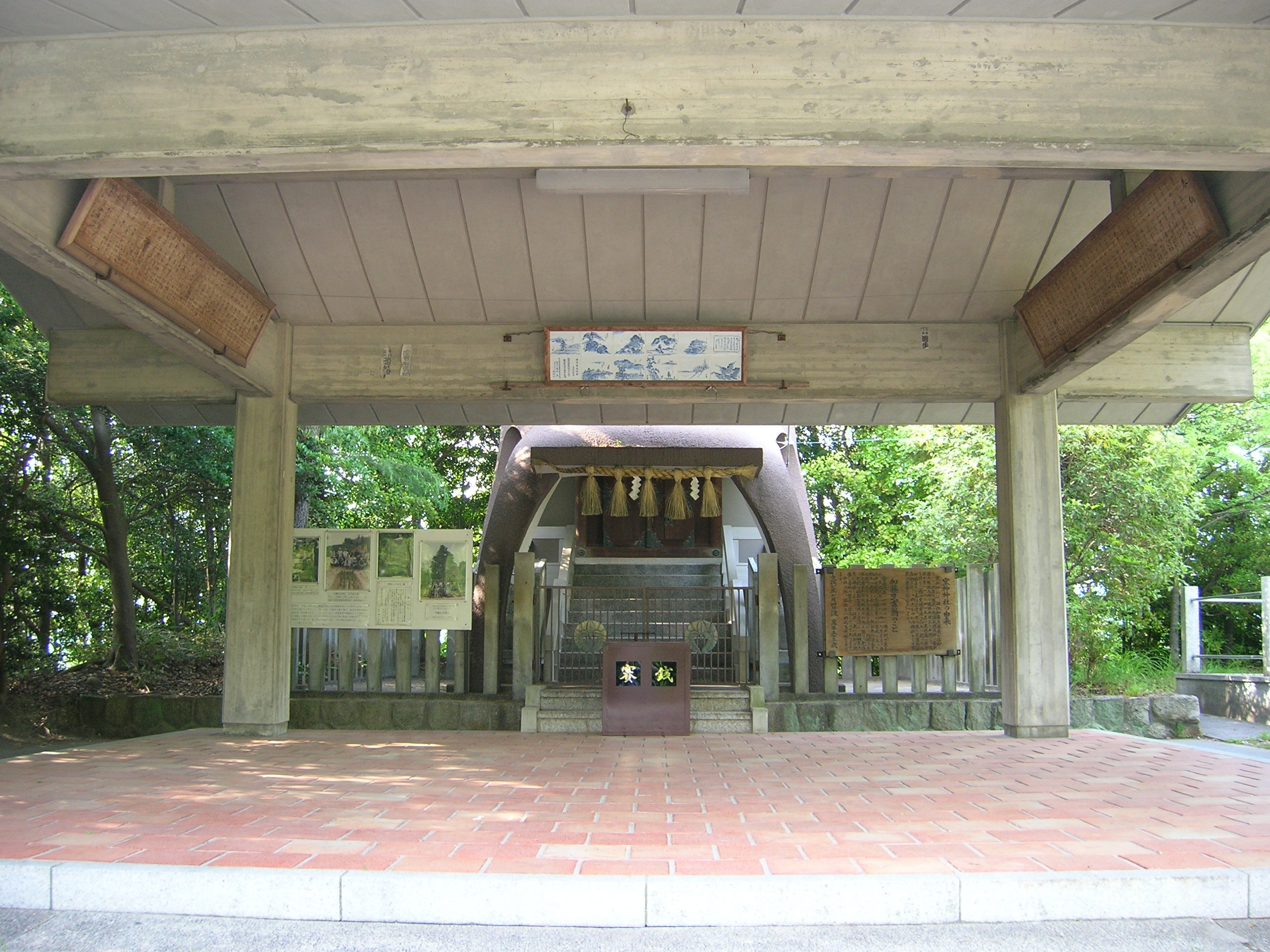 Kamagami Jinja. Loc: Seto city, Aichi Prefecture, Japan. 窯神神社 撮影場所 愛知県瀬戸市・窯神山